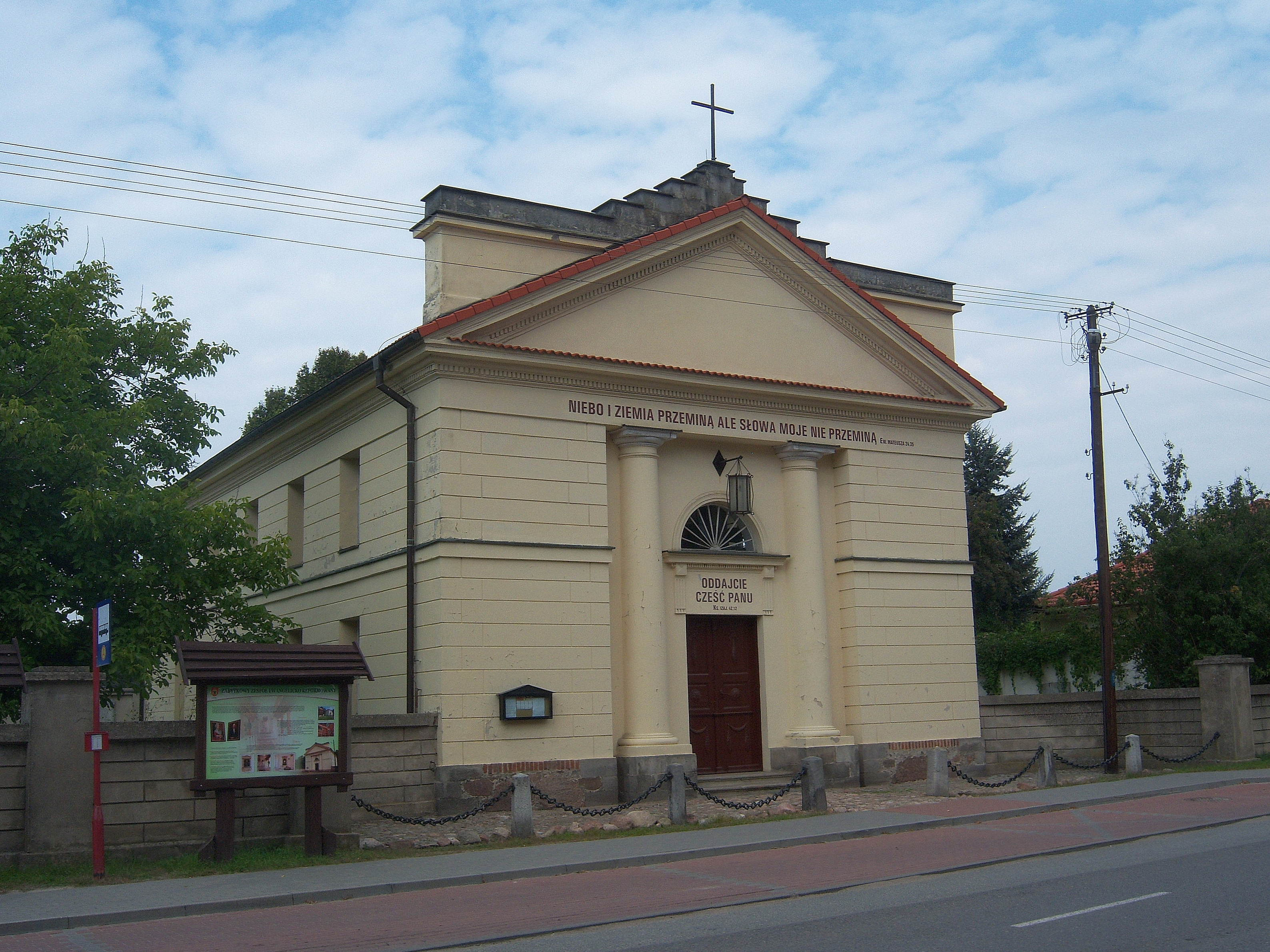 Reformed Church in Żychlin